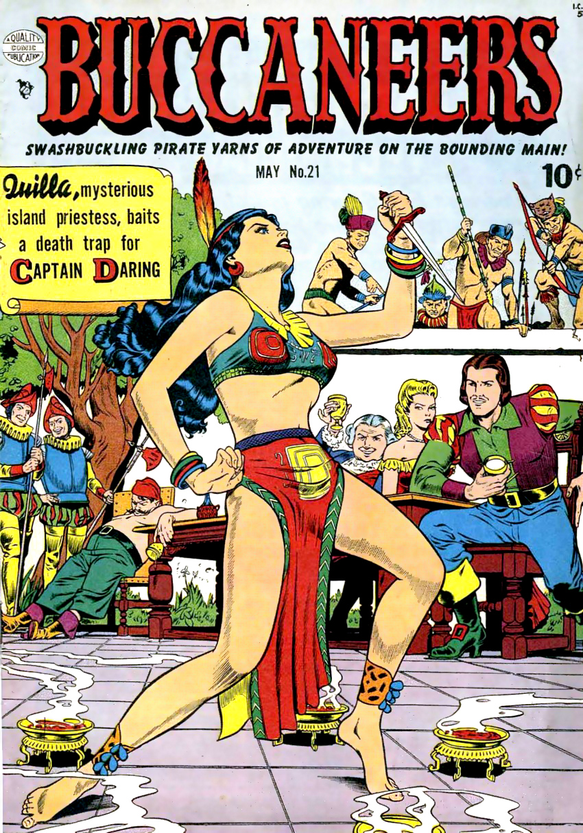 Cover of Buccaneers, volume 1, number 21, May 1950, as published by Quality Comics. This image has lapsed into the public domain, due to Quality failing to renew the copyright.